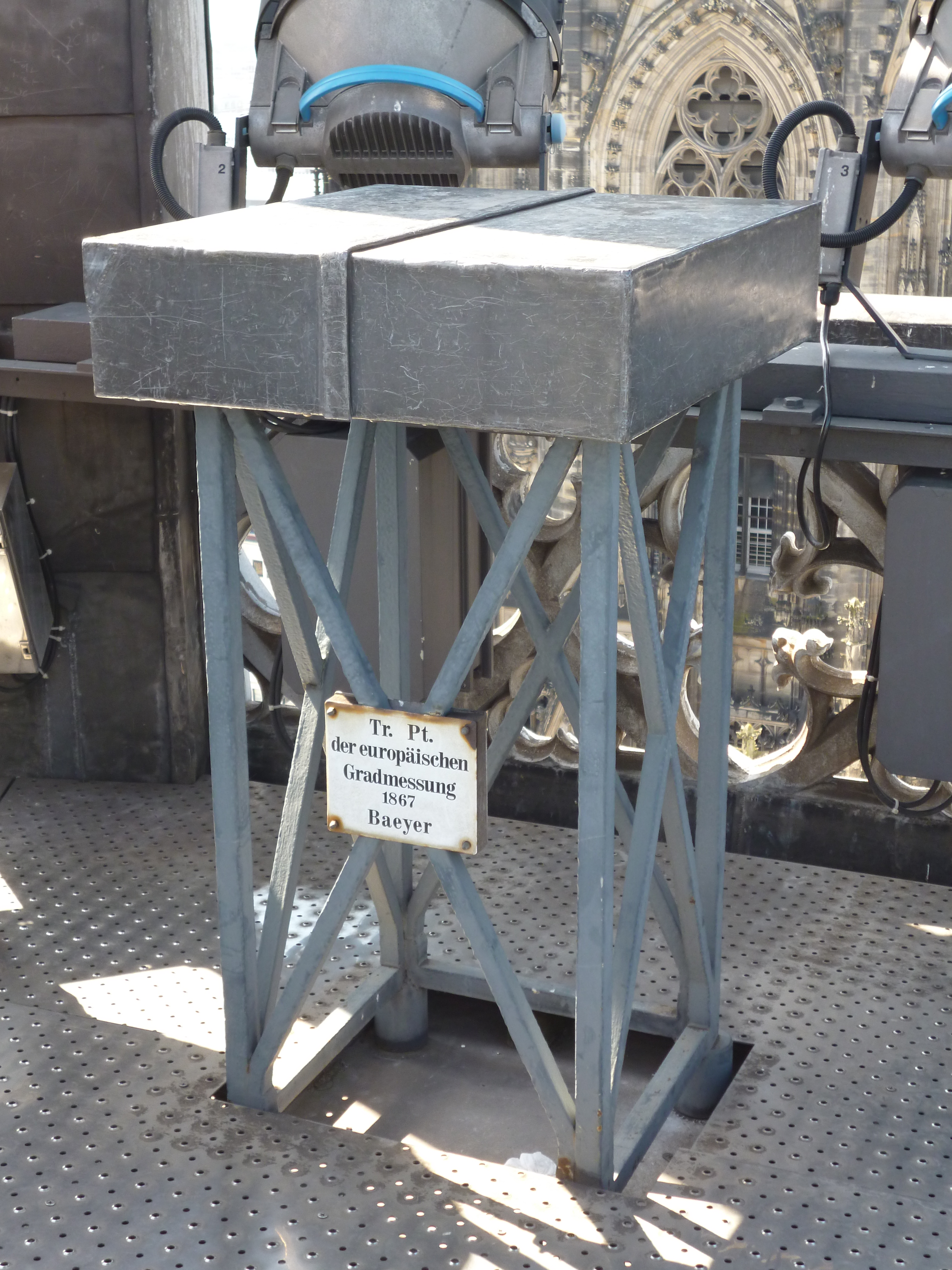 Kölns höchster trigonometrischer Punkt im Vierungsturm des Doms